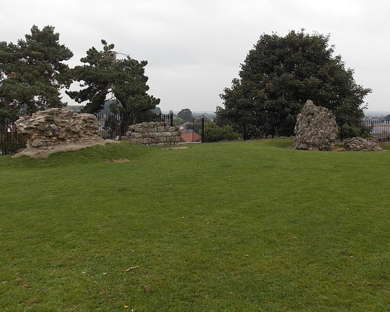 Fragmentary remains of Oswestry Castle A few fragments of 13th century masonry remain on top of a late 11th century motte. The castle was razed in 1644 by Parliamentarian forces during the Civil War. The remains are Grade II listed and a Scheduled Ancient Monument.